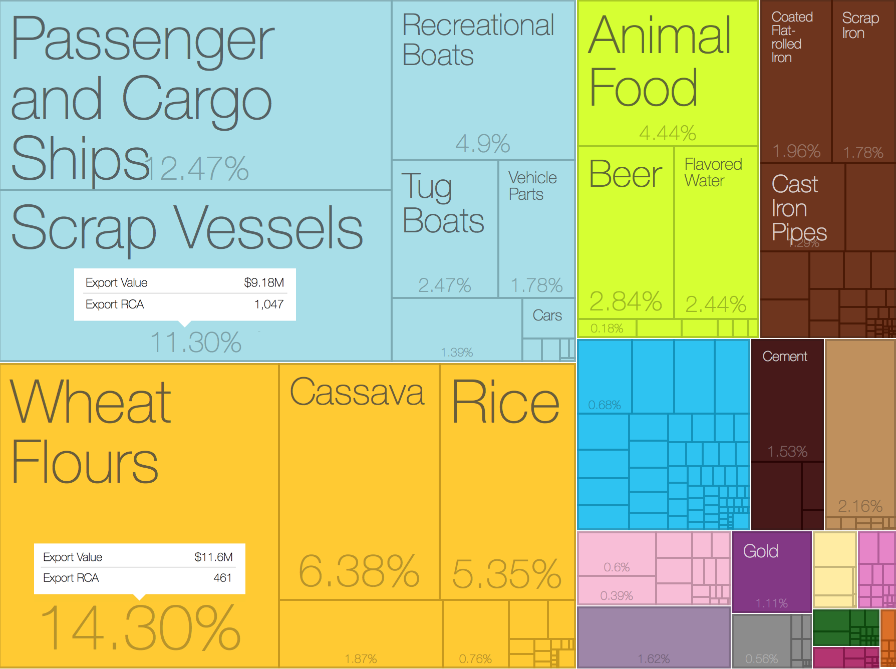 St Vincent 2012 Export MIT Tree From MIT/Harvard Atlas of Economic Complexity Atlas of Economic Complexity